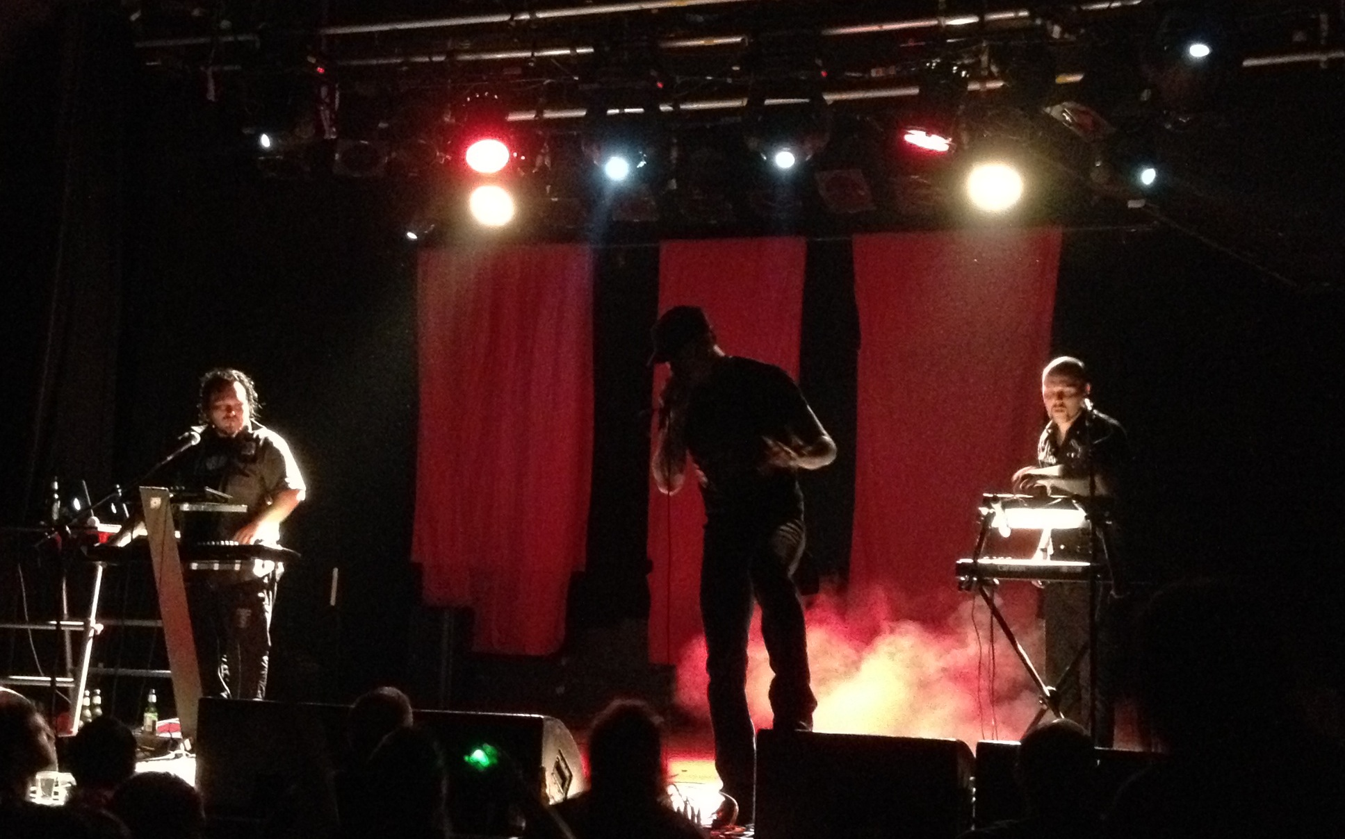 Norwegian electronic music group Icon of Coil, performing in Melbourne, Australia in October 2011. Left to right: Sebastian Komor, Andy LaPlegua, Christian Lund.